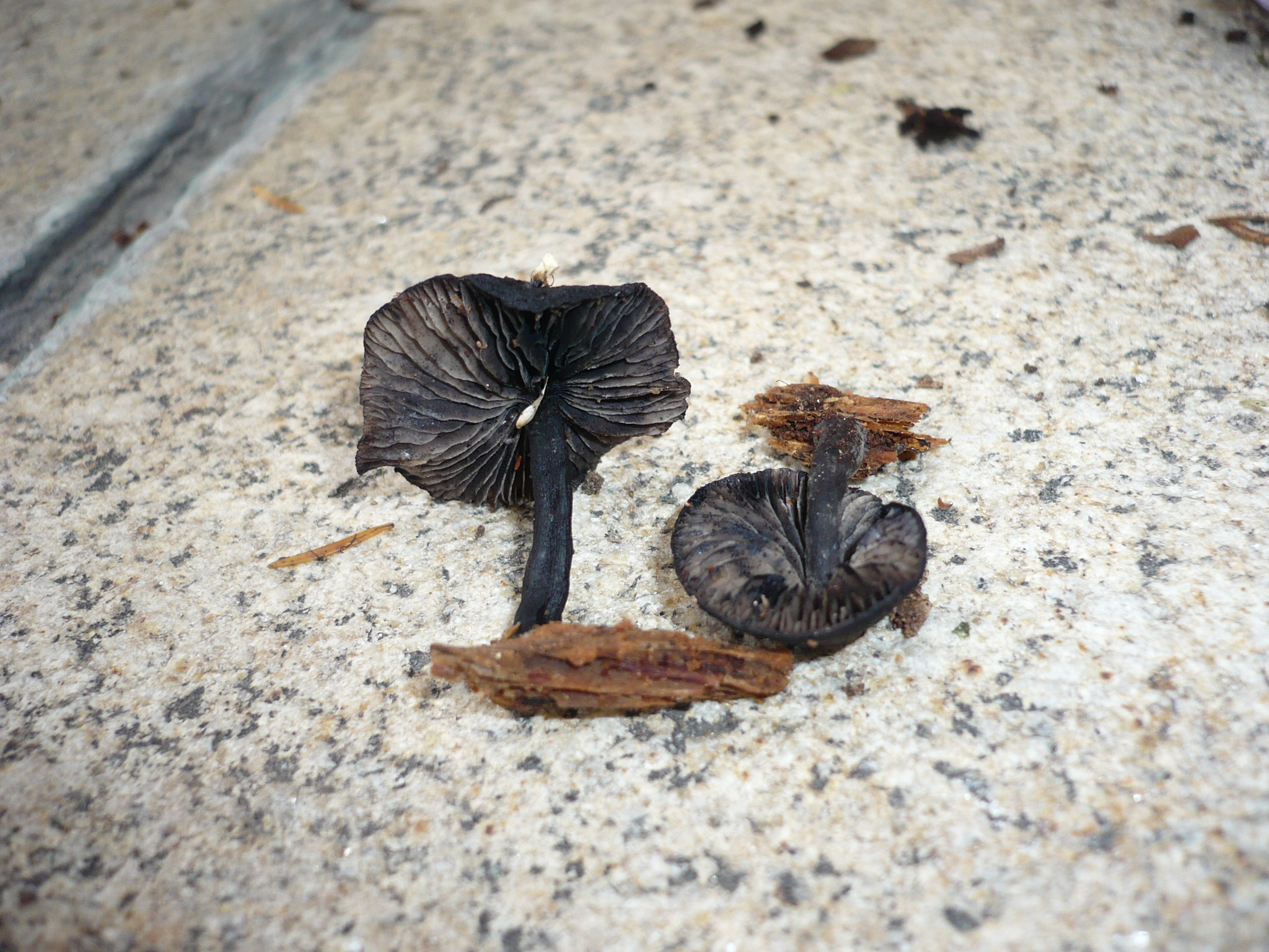 Fruit bodies of the fungus Hydropus atramentosus (Kalchbrenner) Kotlaba & Pouzar. Specimens collected from Zofinsky Prales nature reserve, Zofin, Bohemia, Czech Republic.